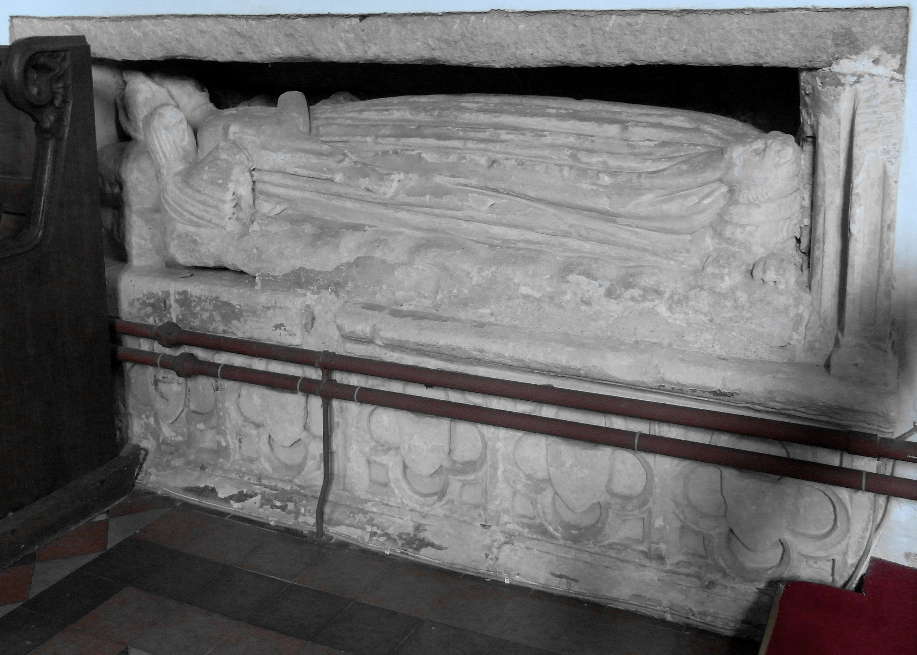 Stone effigy of Blanche Bourchier (d.4 January 1483), daughter of William Bourchier, 9th Baron FitzWarin (1407-1470). She married firstly Philip Beaumont (1432-1473) of Shirwell, MP in 1467 and Sheriff of Devon in 1469. She survived her first husband and married secondly Bartholomew St Ledger of Kent. (Vivian, Heraldic Visitations of Devon, 1895, p.106; Beaumont, Edward T., The Beaumonts in History. A.D. 850-1850. Oxford, c. 1929, (privately published), Chapter 5, pp.56-63, The Devonshire Family, p.64